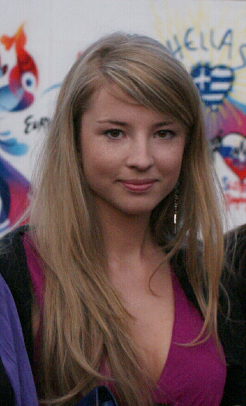 Urban Symphony in Moscow. Mari Möldre